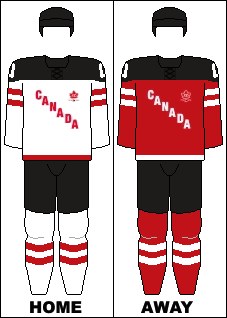 The home and away jerseys of the Canadian national ice hockey team used at the 2015 IIHF World Championship.